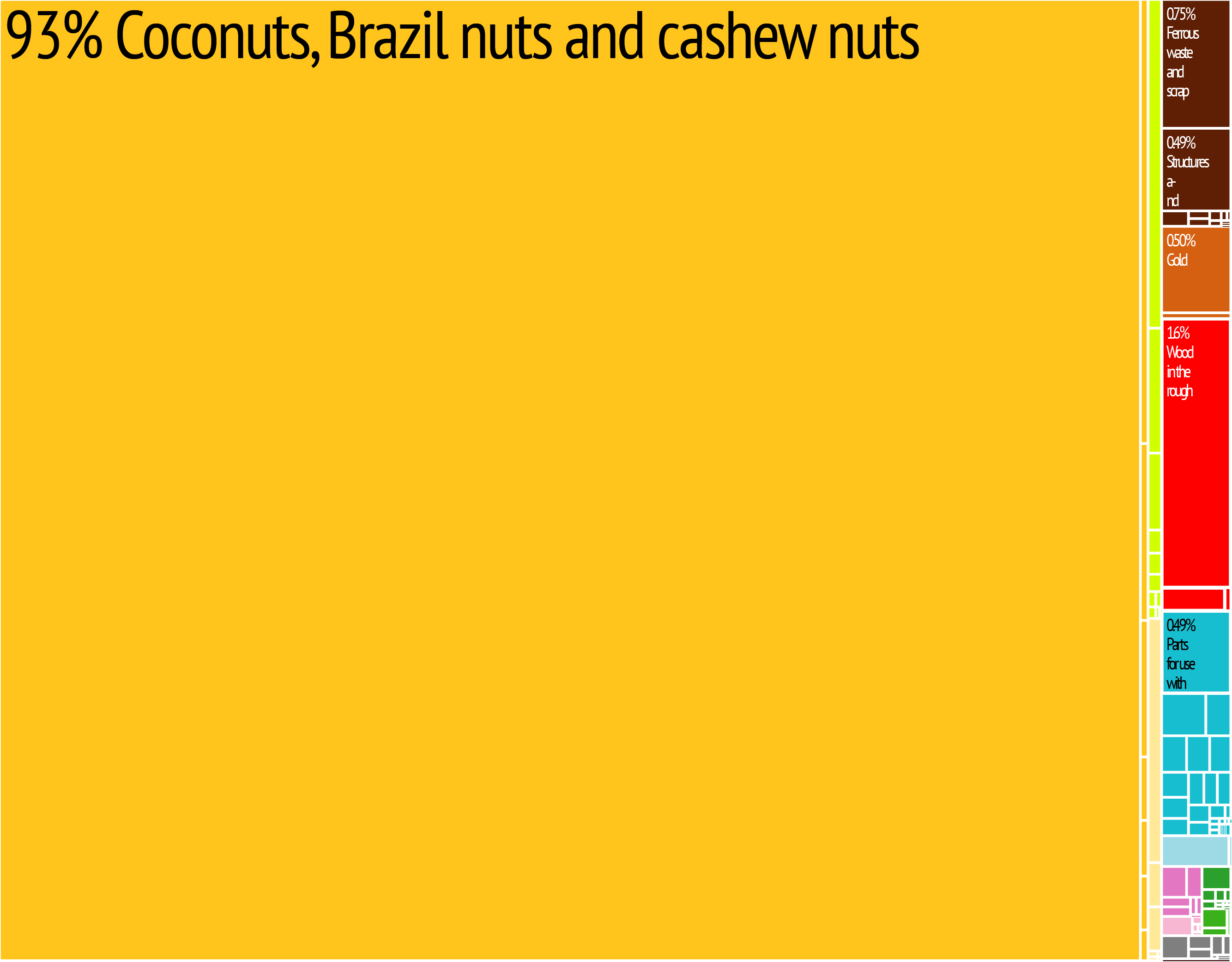 Guinea-Bissau Export Treemap from MIT Harvard Economic Complexity Observatory